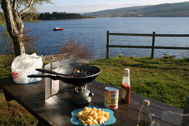 The true joys of angling at Loch Shin - the scenery of course!! Where there's fish there's usually beautiful scenery. Not too much salt' just enough pepper!